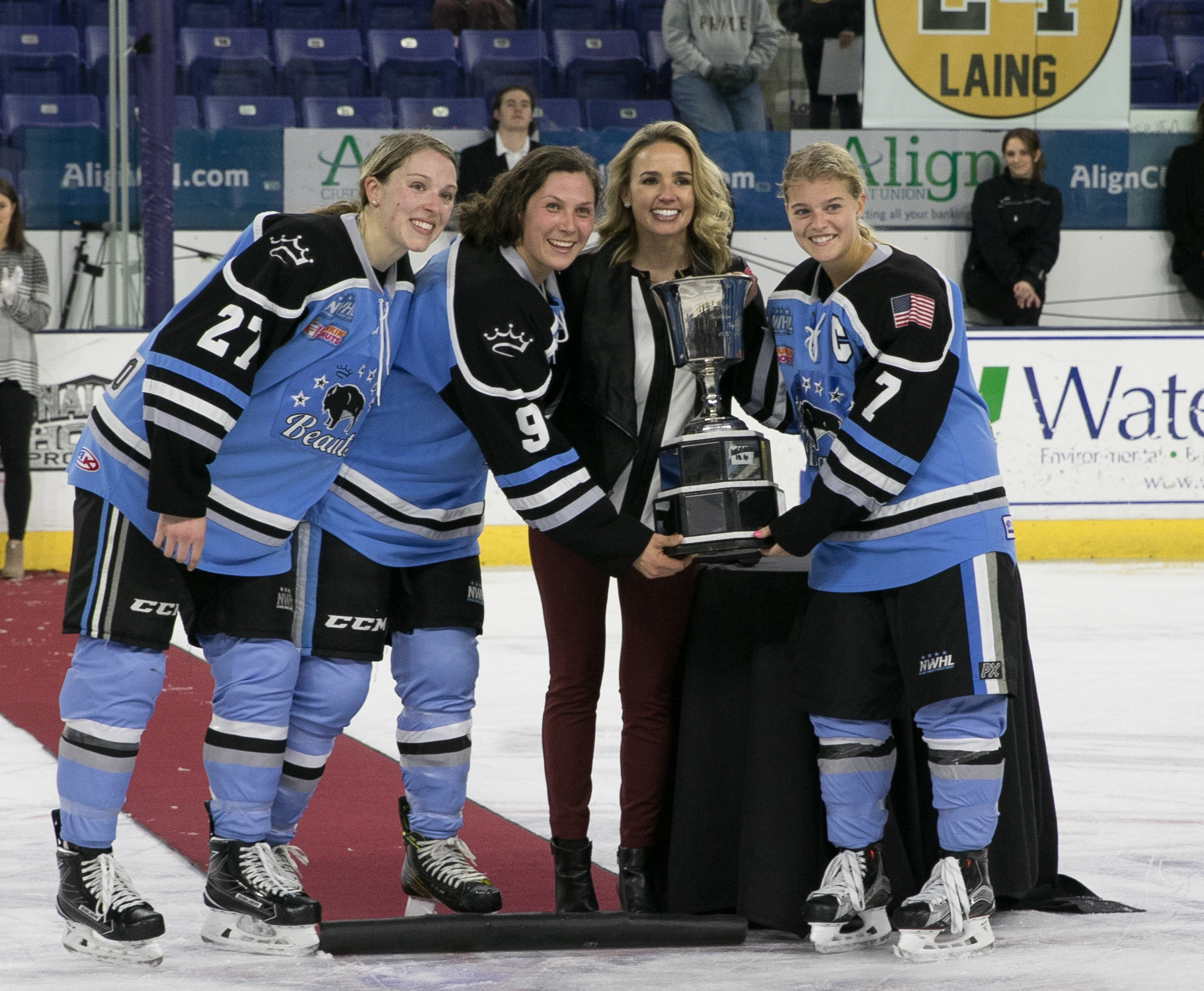 The 2017 Buffalo Beauts captains accept the Isobel Cup.